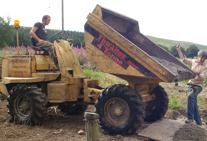 A Thwaites Alldrive 4 tonne dumper in action, emptying the load skip